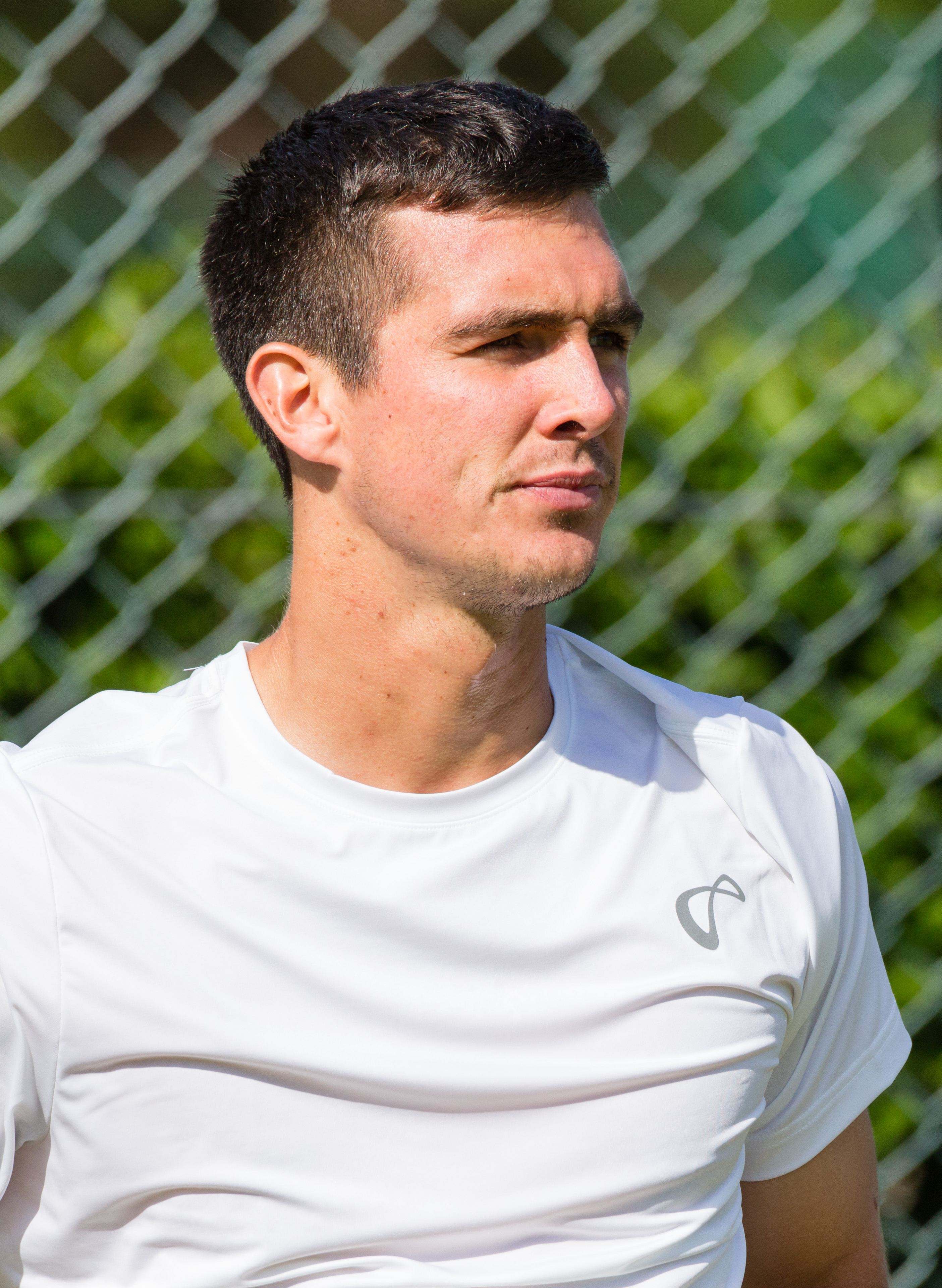 Chase Buchanan competing in the first round of the 2015 Wimbledon Qualifying Tournament at the Bank of England Sports Grounds in Roehampton, England. The winners of three rounds of competition qualify for the main draw of Wimbledon the following week.